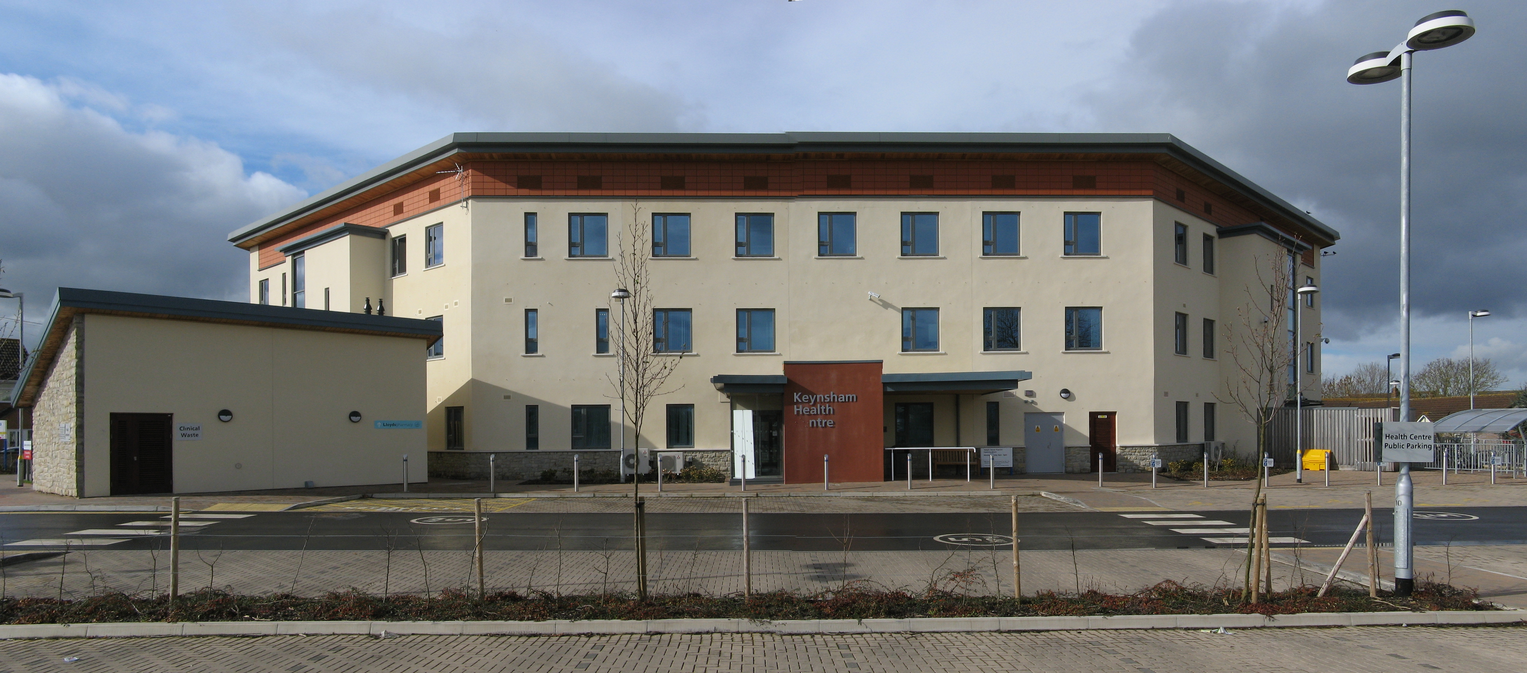 Keynsham Health Centre, built about 2010 on the site of Keynsham Hospital.